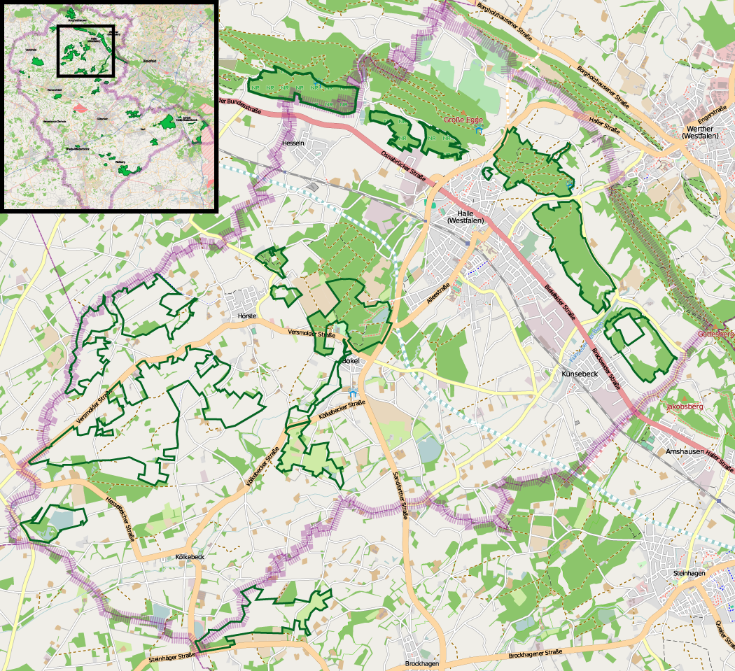 Nature reserves in Halle, North Rhine-Westphalia - overview map Number and borders of nature reserves are subject to frequent change. In order to facilitate reproduction of this map from openstreetmap, the following data is stored here: export boundaries: north: 52.095; east: 8.425; south: 51.991; west: 8.24; mapnik svg, scale 1:70.000 nature reserve boundary stroke weight 3.5; nature reserve stroke color: R 5, G 102, B 36; district border stroke weight: 20